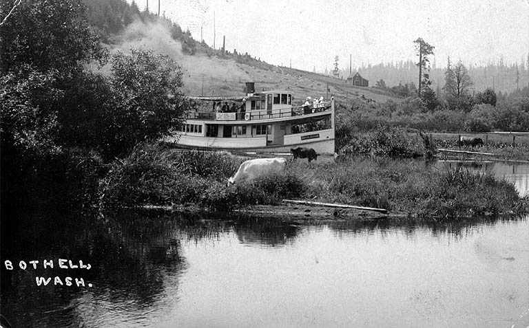 May Blossom (steamboat) on Sammamish Slough, (between Lake Sammamish and Lake Washington) ca 1900, near the present city of Kirkland, WA, USA. From an old postcard.